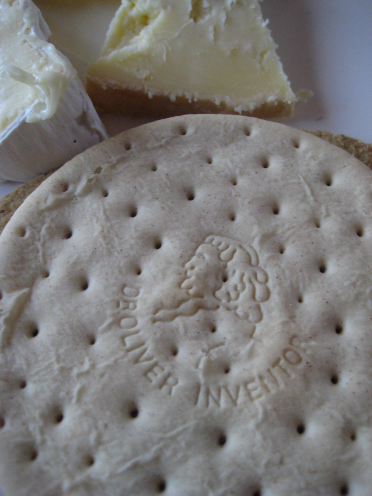 yummy bath olivers